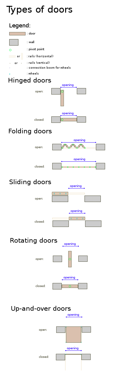 A schematic showing the basic types of doors. Note that many variations (subtypes) exist aswell. Note that the wheels in the up-and-over (or overhead) door are actually placed entirely within the rail, but for the sake of clarity of operation, they are placed half in/half out of the rail. Note that the small spacing is thus normally also not present. For a schematic showing the placement of locks depending on door type